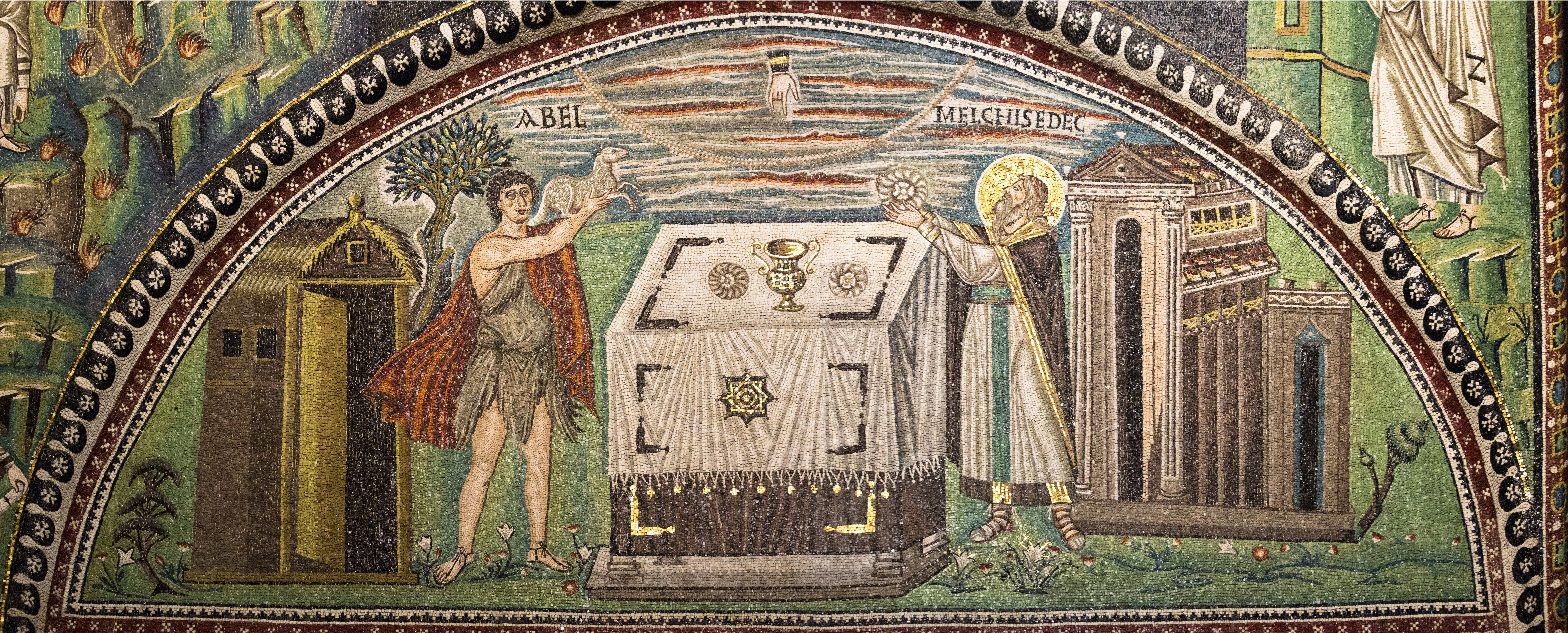 Sacrifices of Abel and Melchizedek, Basilique San Vitale, Ravenna, Emilia-Romagna, Italia